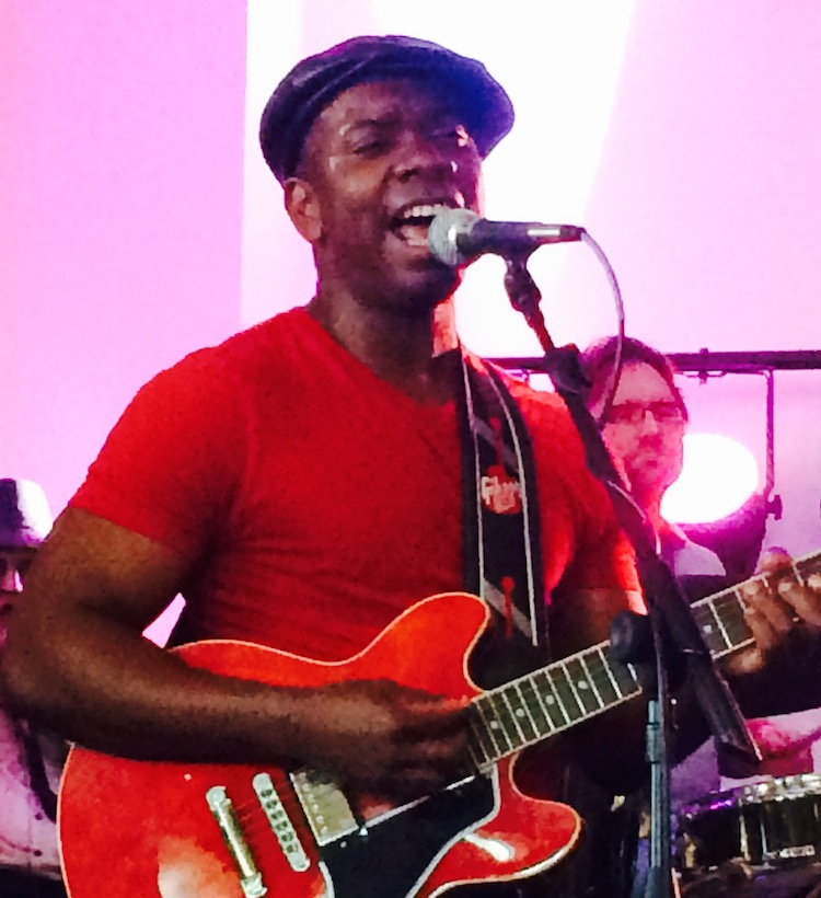 Kipori Woods jamming at the Morrison, Brisbane, Australia